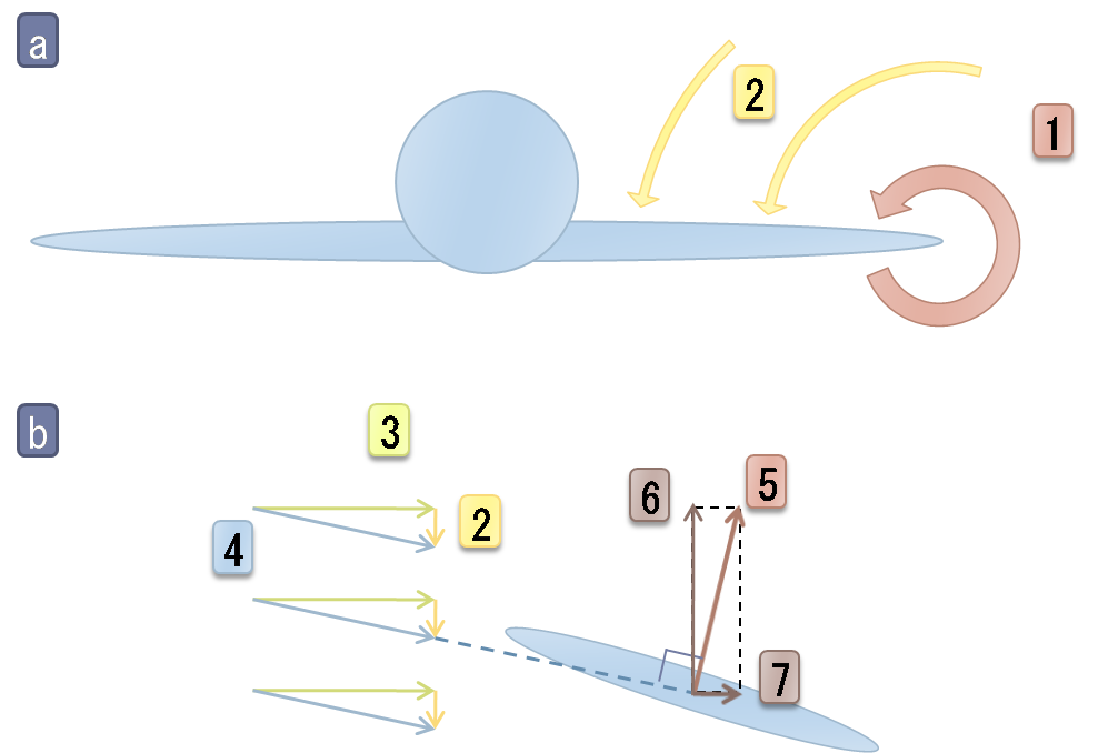 This is a model image of aerodynamic drag induced by tip vortex.